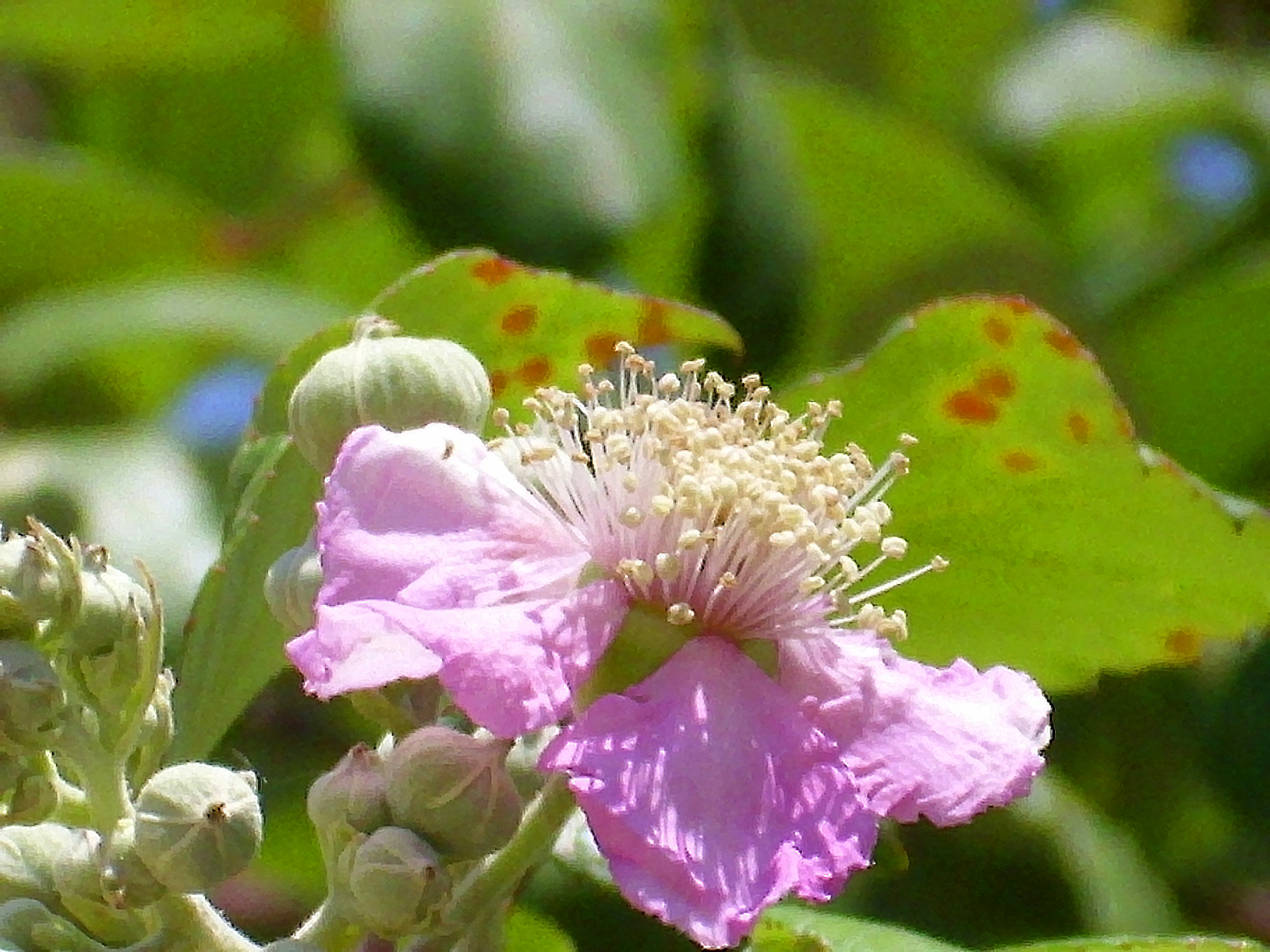 Rubus ulmifolius flower closeup, Sierra Madrona, Spain